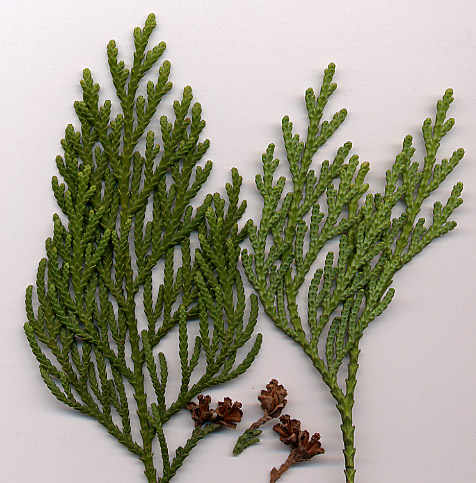 Original description: Japanese Thuja foliage and cones - photo MPF.